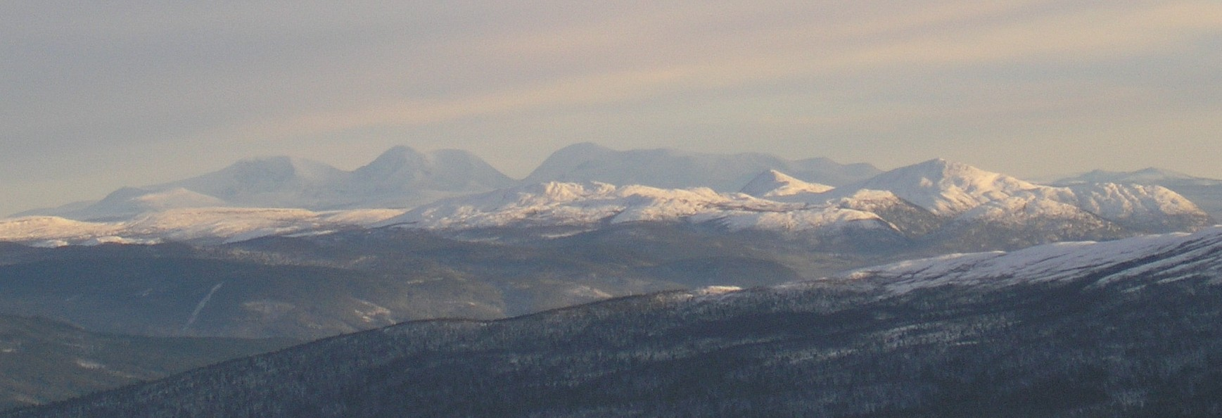 Rendalssøln seen from northwest (from the top of Moskardskampen in Folldal)